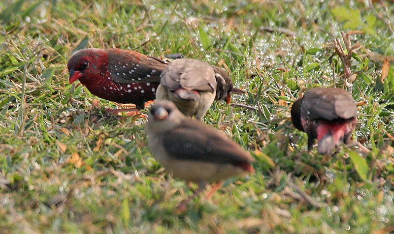 Red Avadavat Amandava amandava in Kolkata, West Bengal, India.